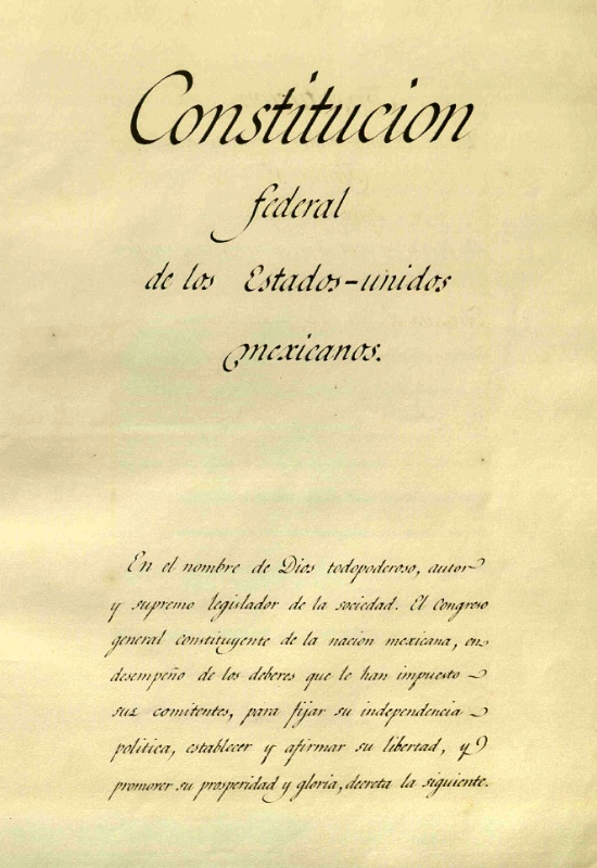 Original page of the preamble of the Federal Constitution of the United Mexican States of 1824